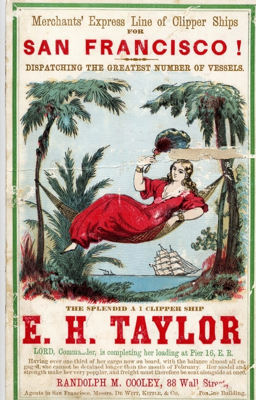 Sailing card for the clipper ship E. H. Taylor.